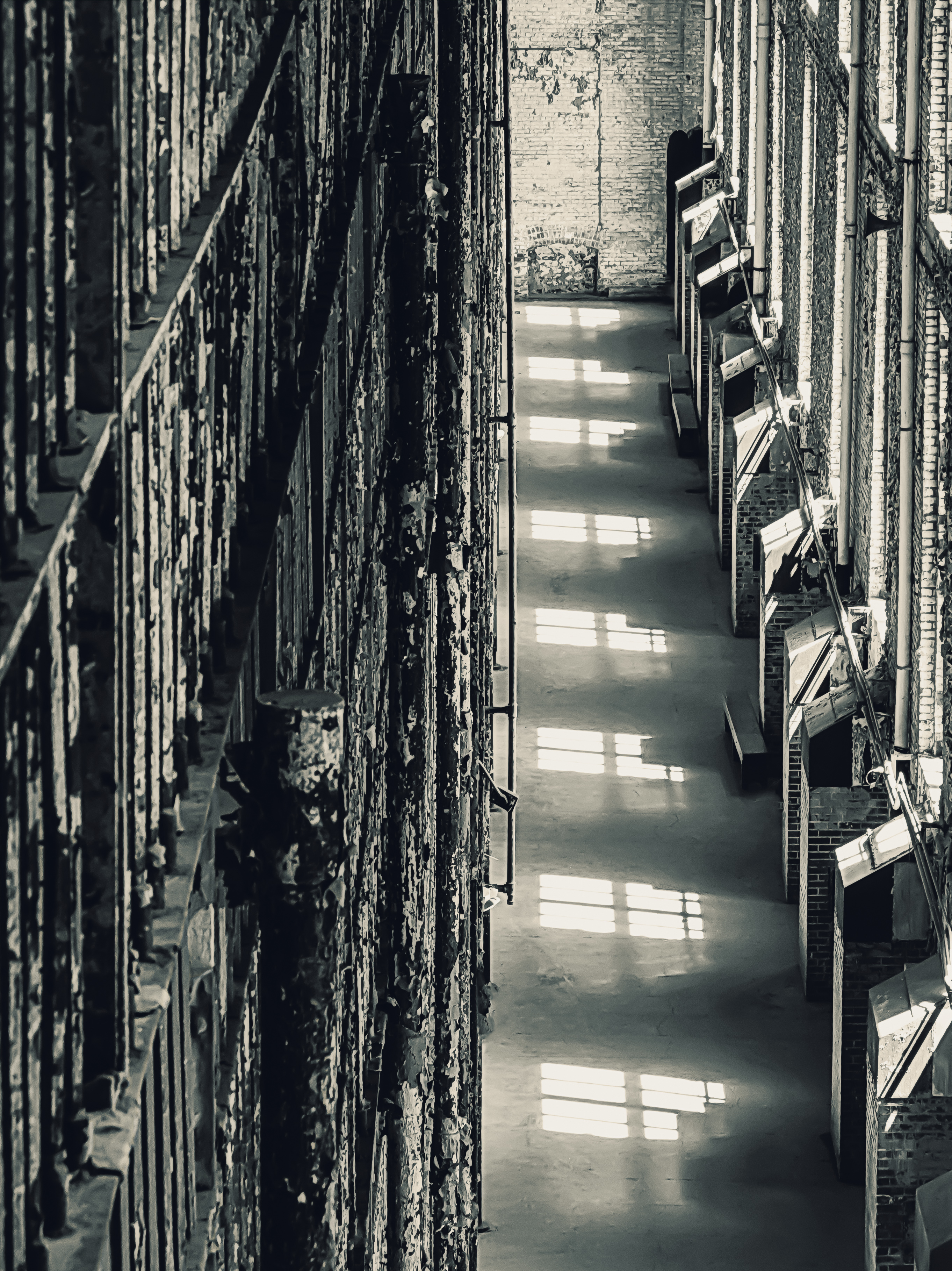 Ohio State Reformatory, Olivesburg Rd. Mansfield